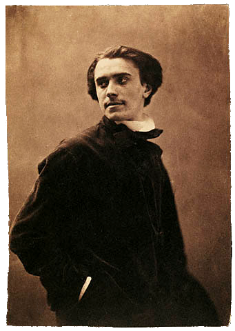 Probably Aimé Millet